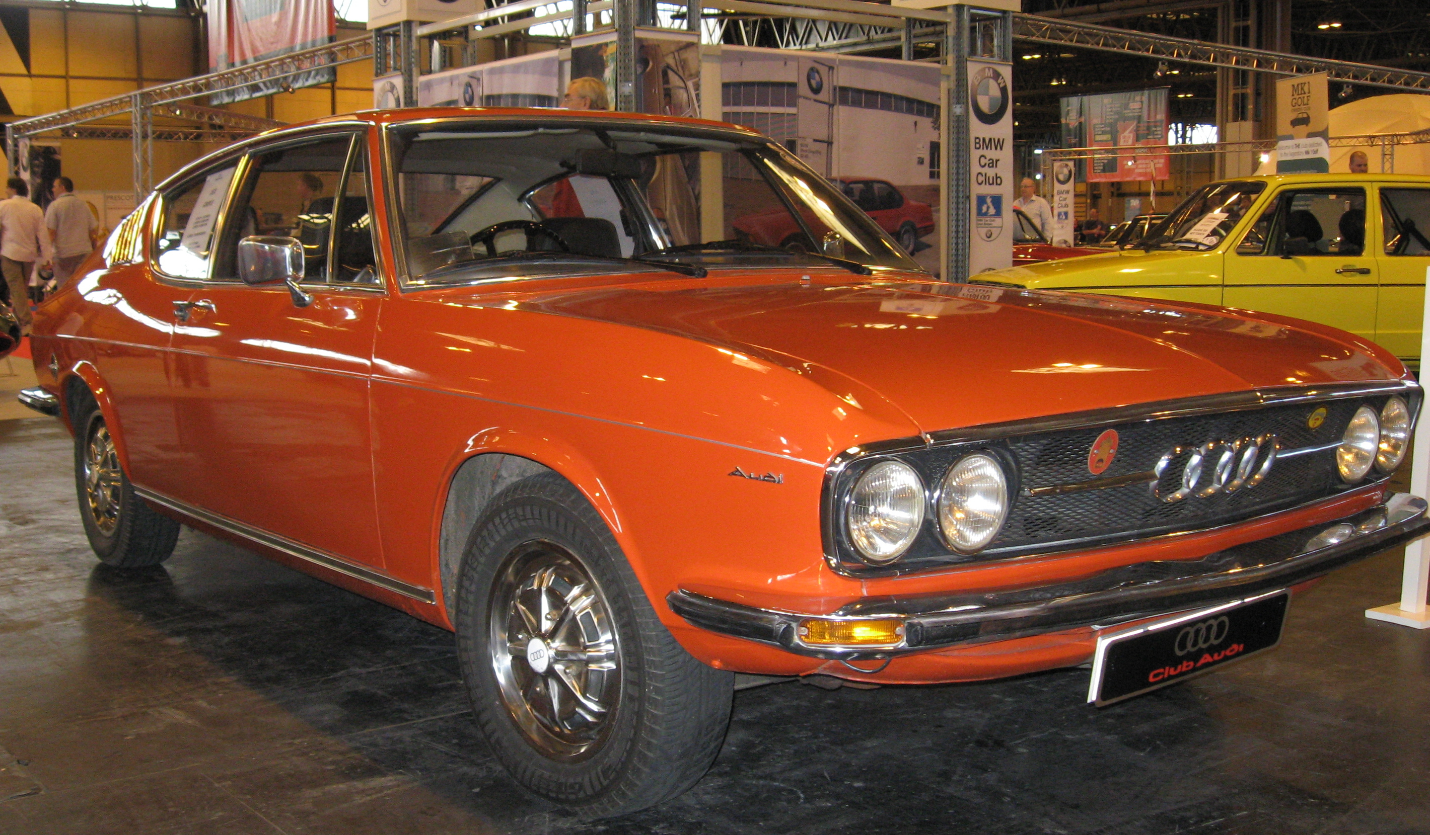 Audi 100 Coupe S, photographed at NEC Classic Motor Show 2007